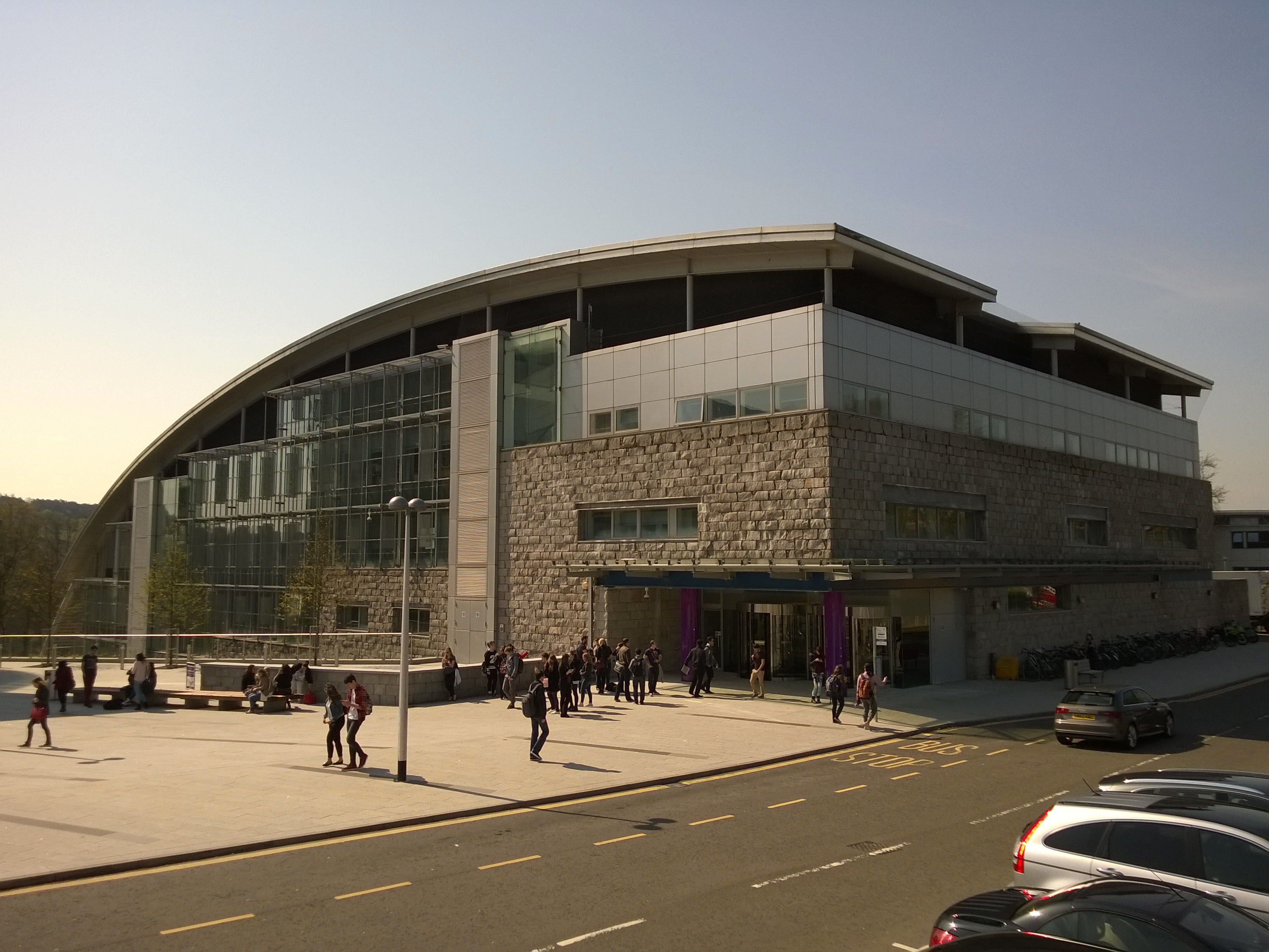 The Robert Gordon University, Aberdeen, Scotland: Faculty of Health and Social Care building shown.